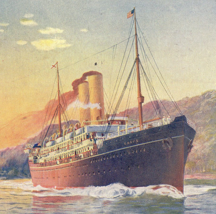 R. M. S. P. 'AVON' at San Juan, P. R. FEB 27, 1911 side 1 Note: The postcard is from ship RMSP Avon, but the ship represented is the Tagus, of the same company.